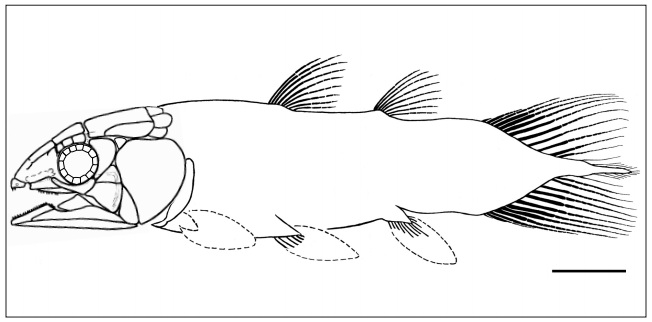 Line drawing reconstruction of Serenichthys kowiensis